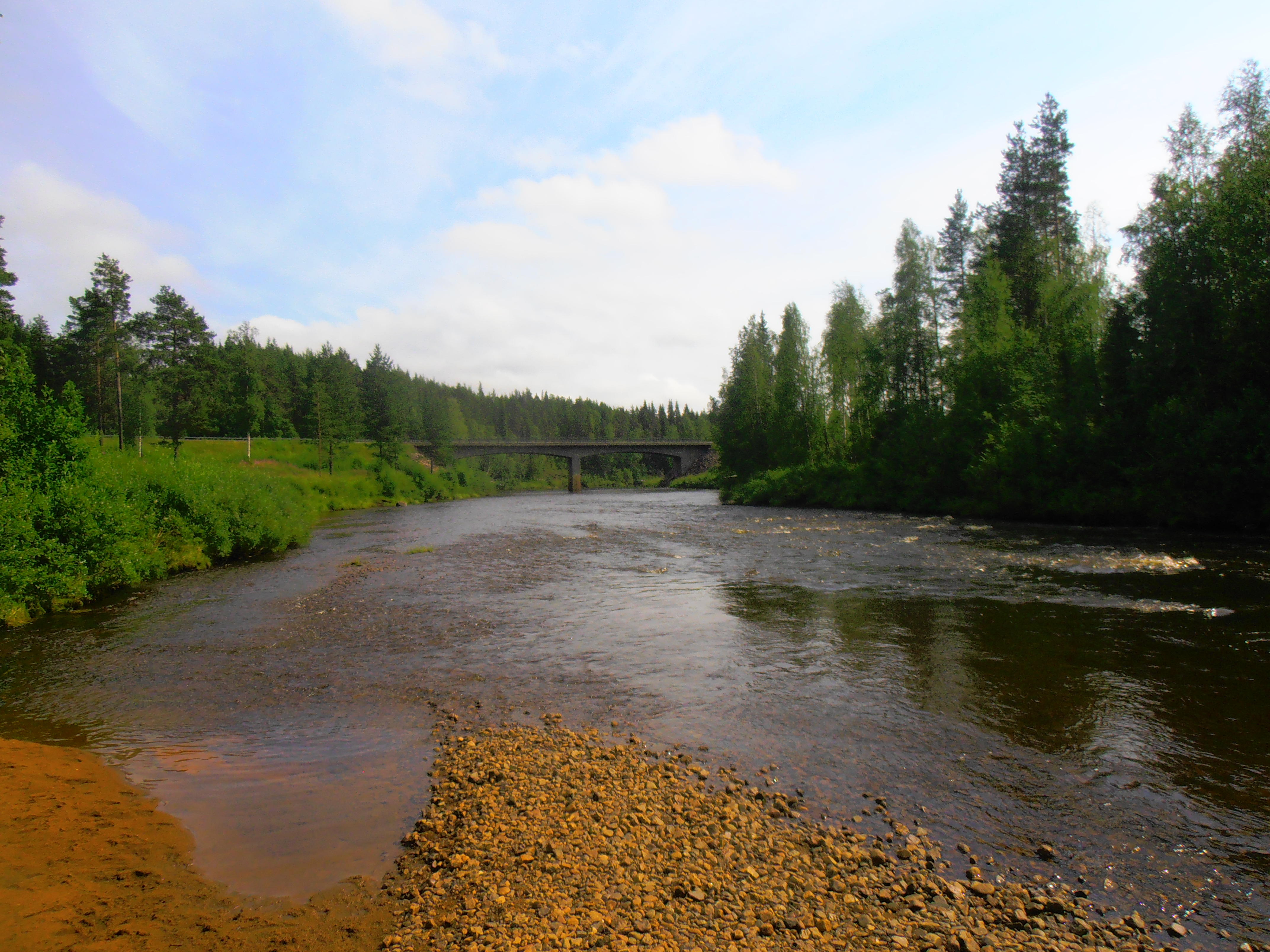 Skrövån, Gällivare